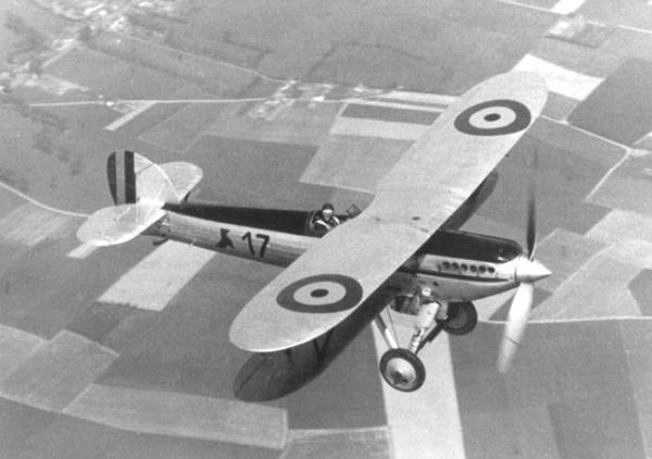 A Belgian Air Force Fairey Firefly IIM "Y-17" in flight near its homebase at Nivelles, Belgium. The machine (Fairey c/n F-1505) belongs to Squadron 3/II/2 Aé (Red Cocottes) and was delivered from Fairey Hayes (U.K.) on 21 August 1931.